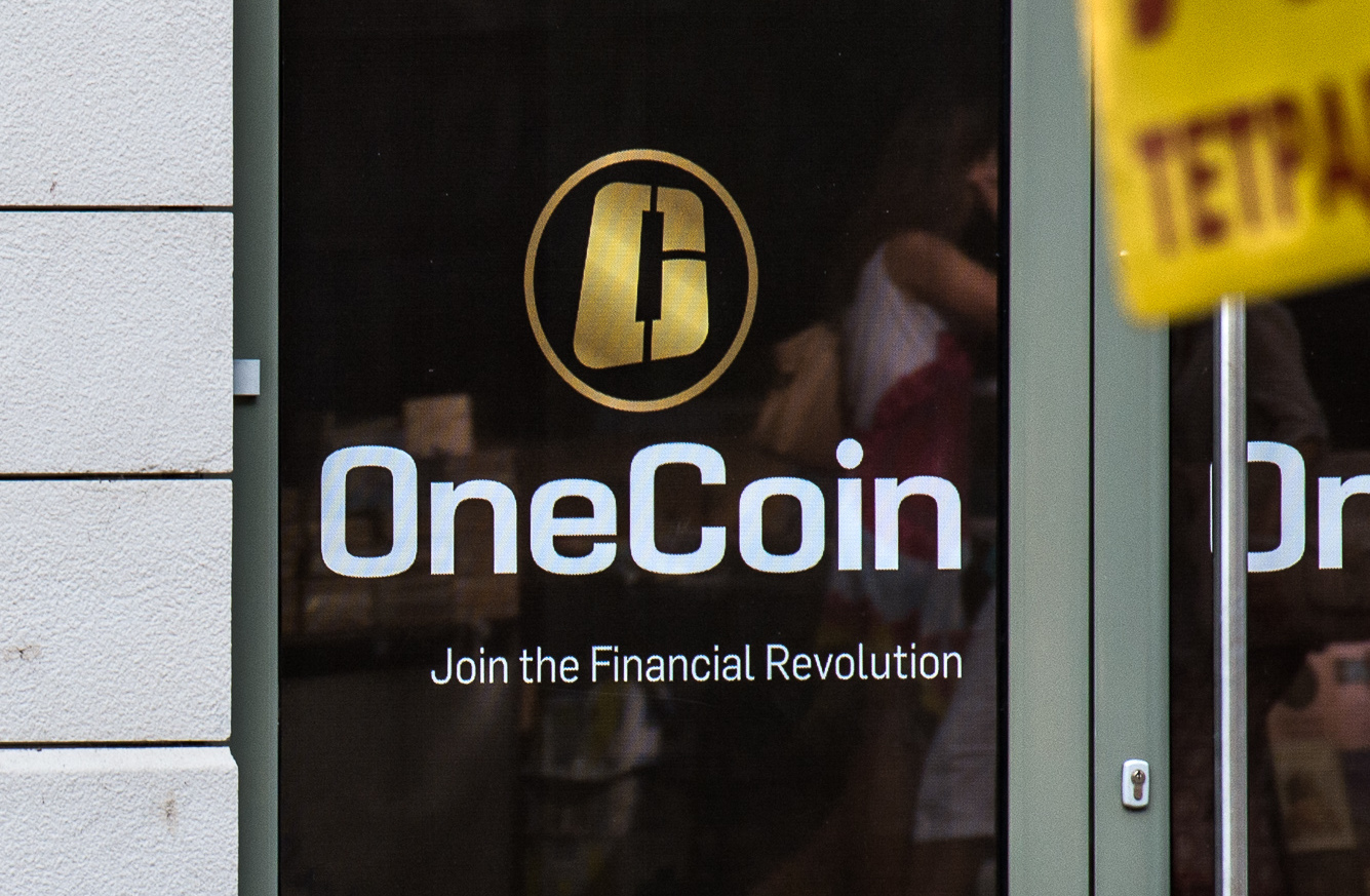 OneCoin logo on the door of their office in Sofia, Bulgaria